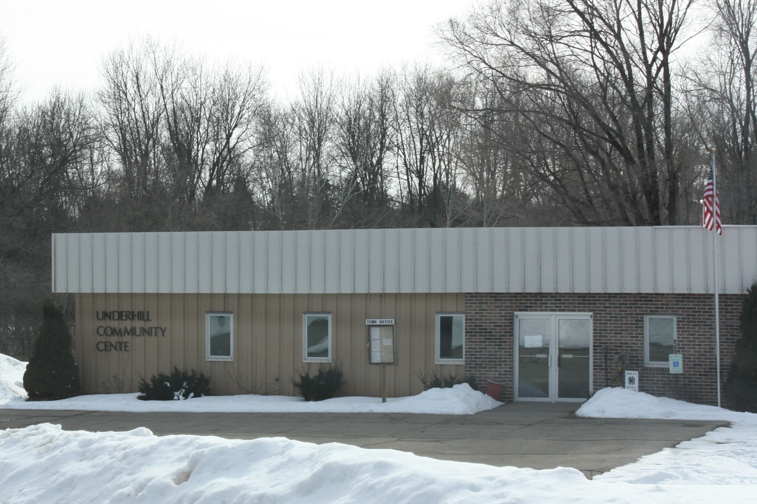 The community center in Underhill, Wisconsin.